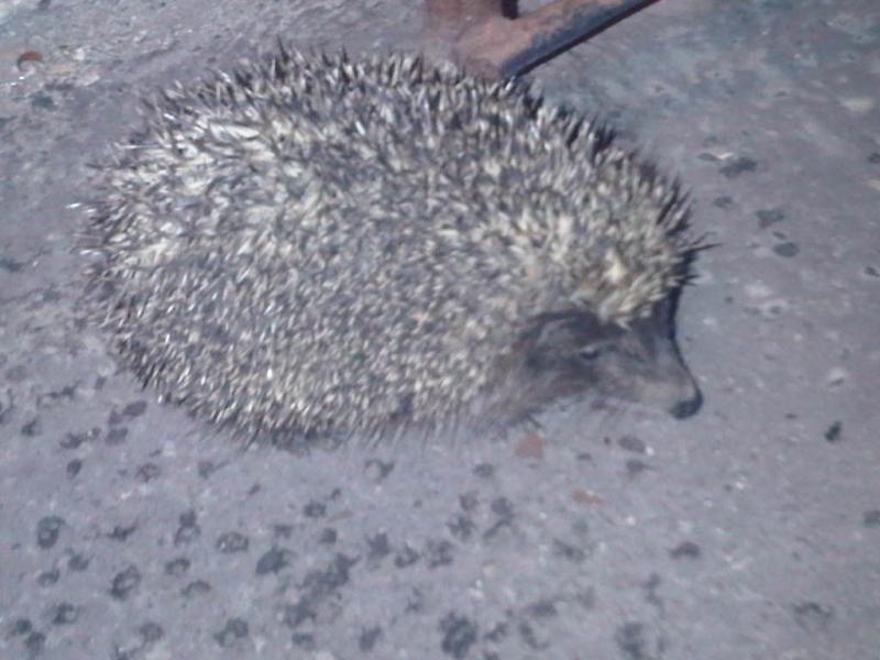 Northern White-breasted Hedgehog (Erinaceus roumanicus) in Budapest, Hungary.